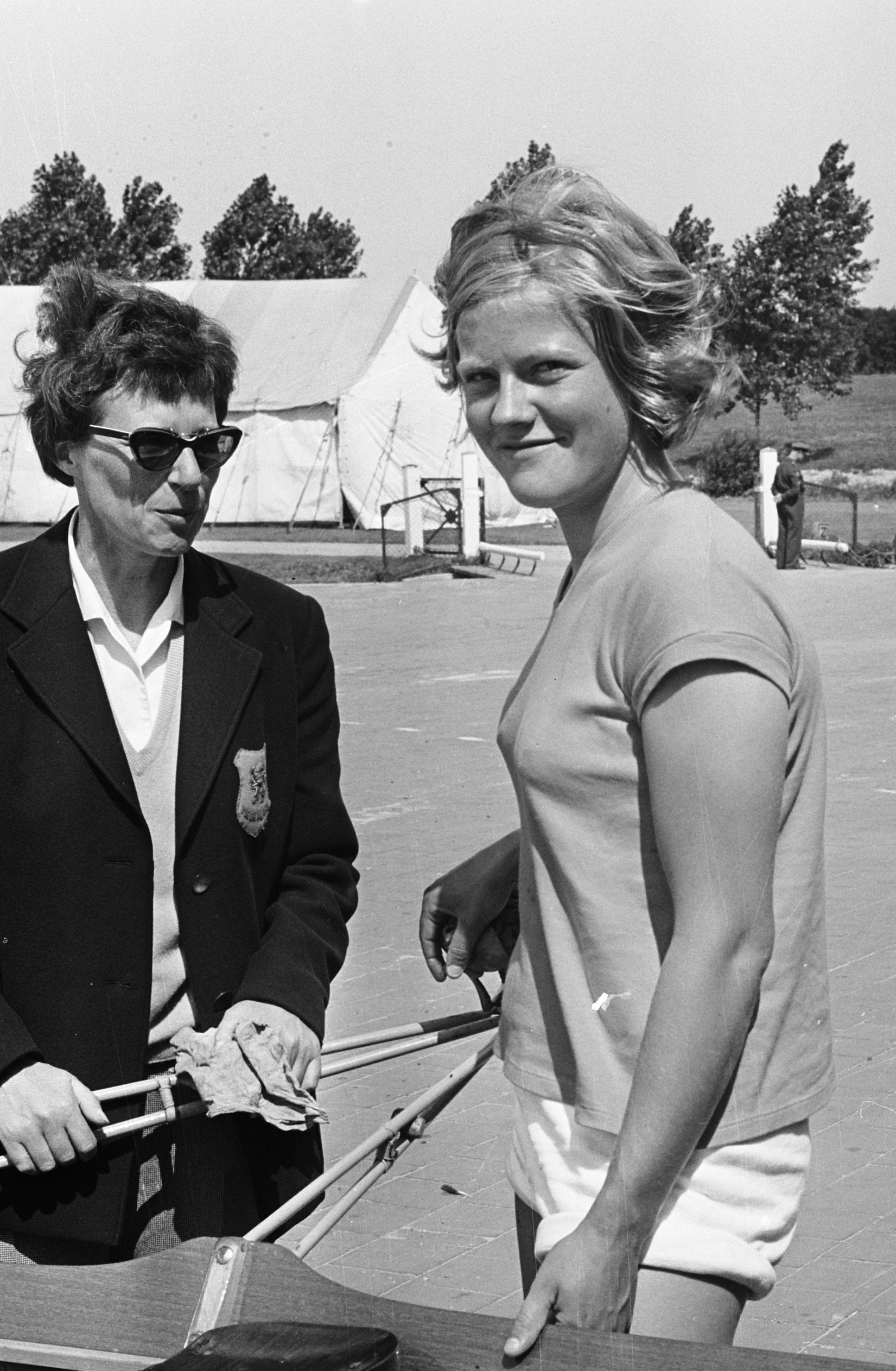 Training at the European rowing championships at the Bosbaan – the Dutch rower Meike de Vlas with her trainer Miss Veenstra